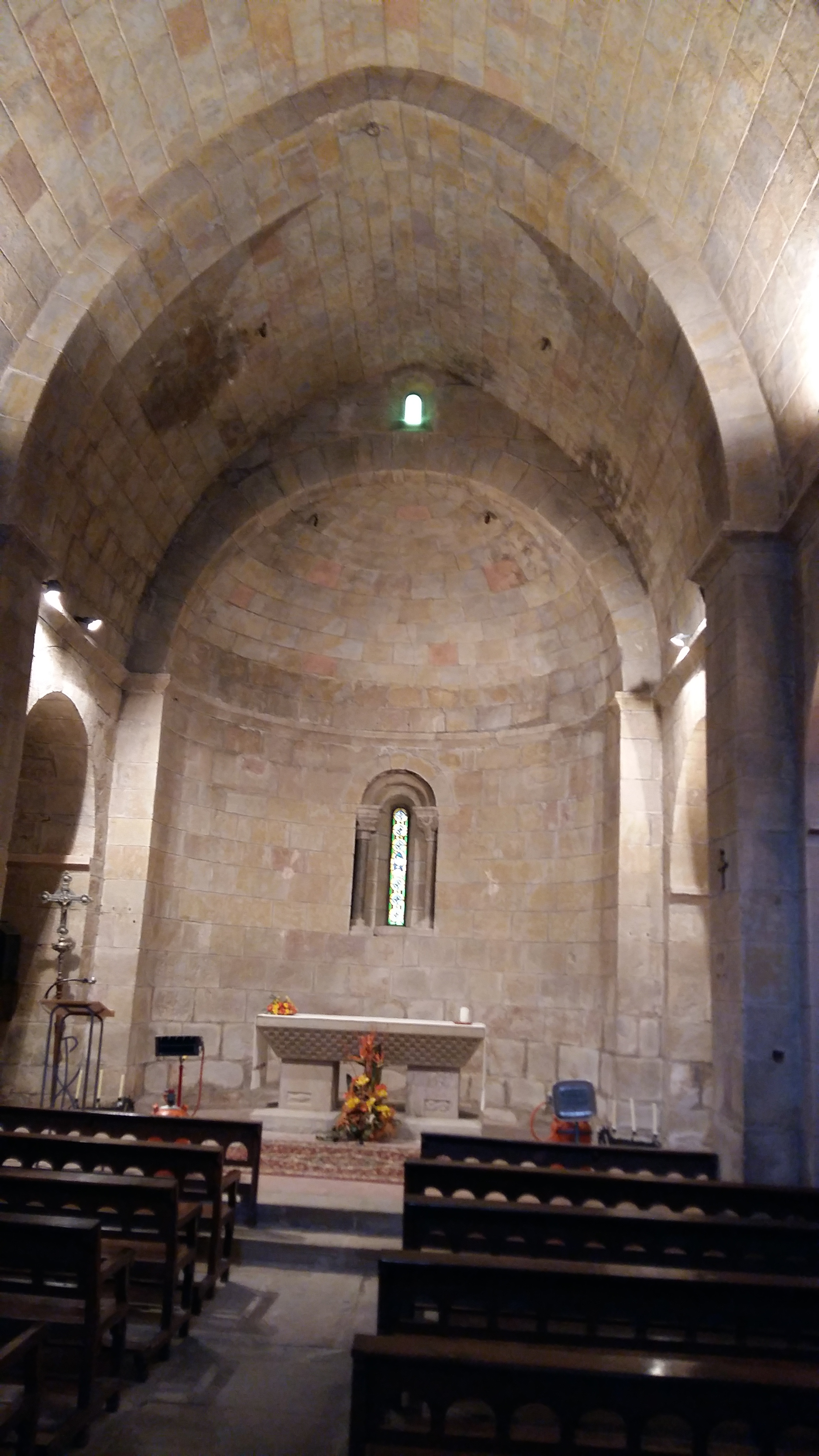 Romanesque church Sant Salvador de Bianya (Catalonia) - Inside